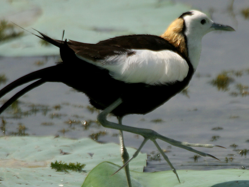 Pheasant-tailed Jacana Hydrophasianus chirurgus at Lotus Pond, Hyderabad, India.